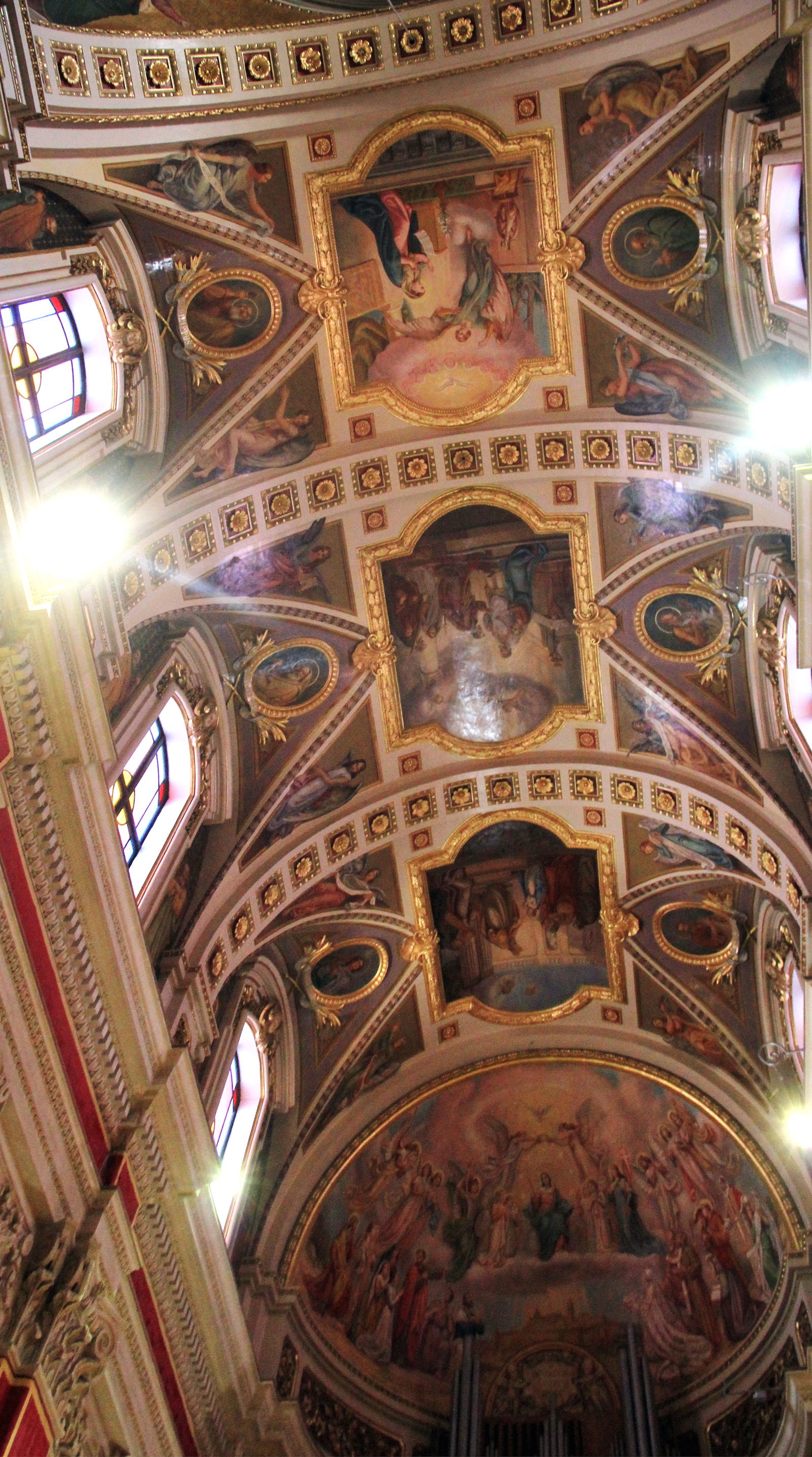 Decoration of the ceiling in St. Marija Cathedral in Victoria - capital of Gozo island, Malta